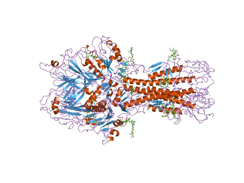 Cartoon representation of the molecular structure of protein registered with 1flc code.